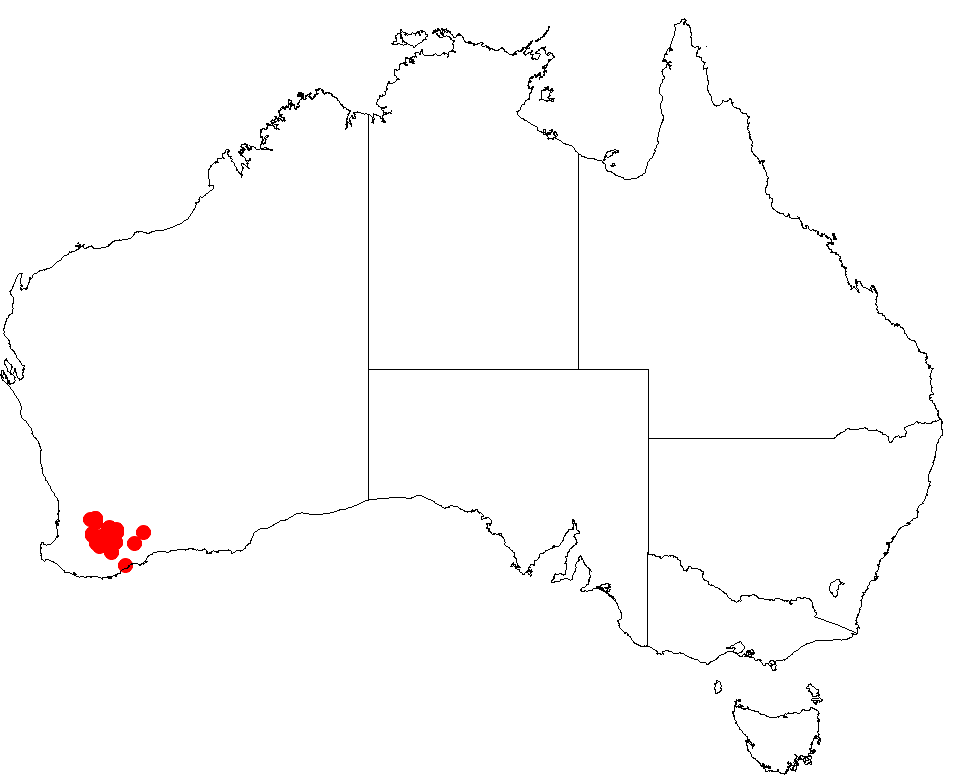 Hakea hastata Occurrence data downloaded from Australasian Virtual Herbarium on 22 November 2018 using